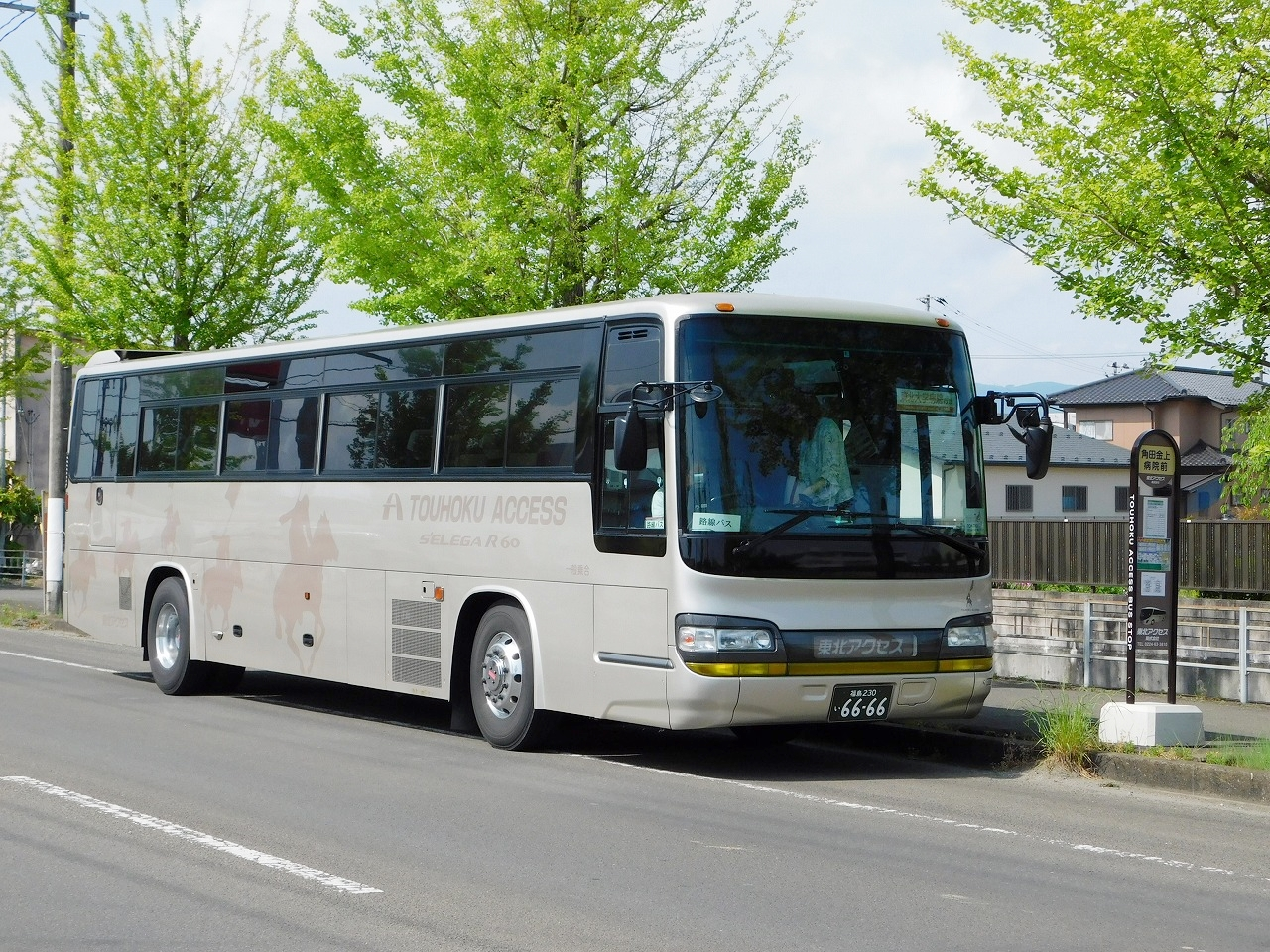 Tohoku Access Kakuda line bus for Sendai,at Kakuda Kanagami hospital bus stop